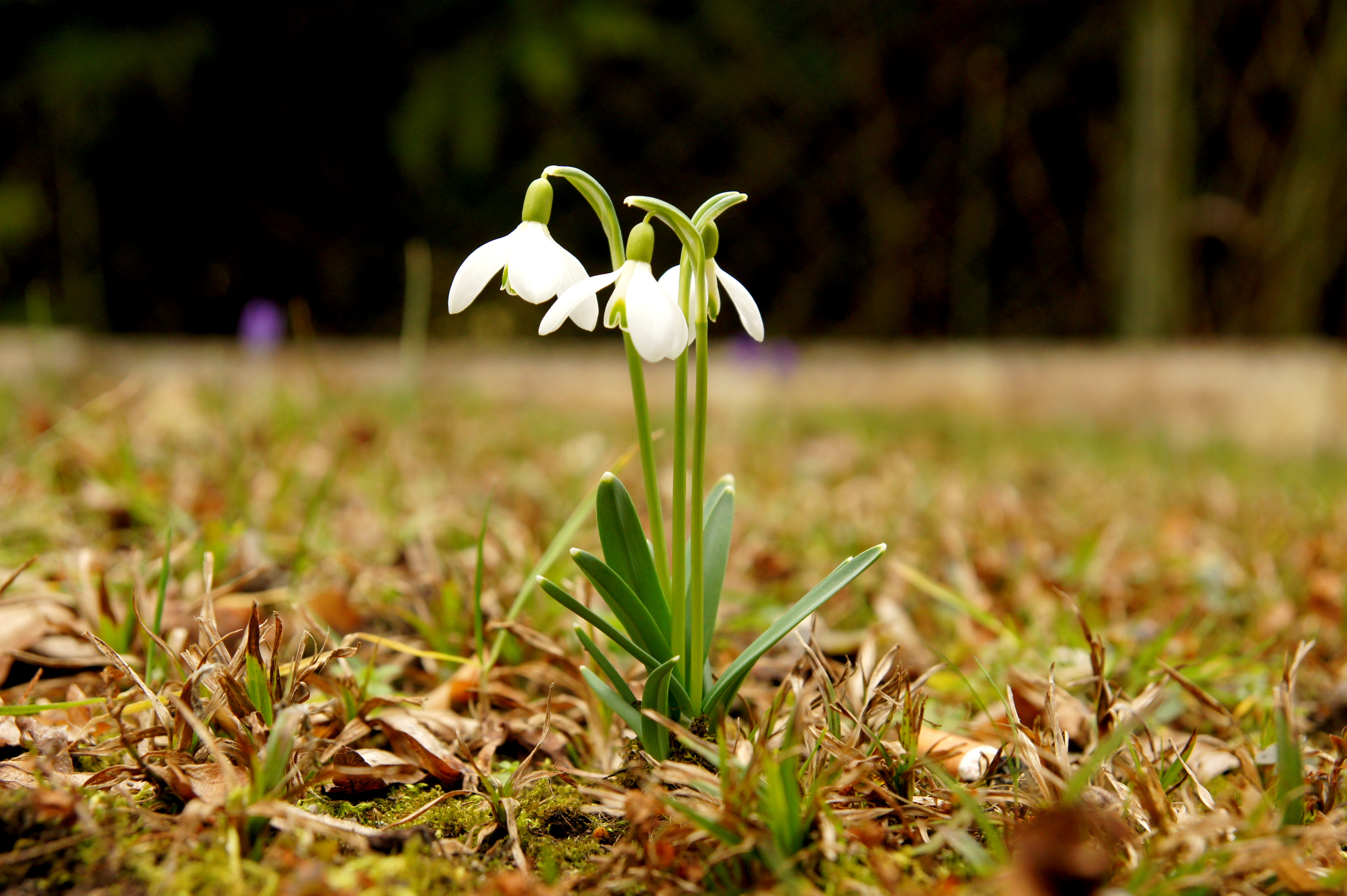 Galanthus nivalis 2010-03 München